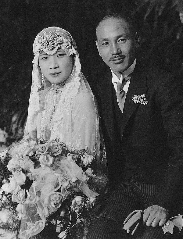 1 Decenber 1927 Chiang Kai-shek and Soong May-ling wedding ceremony in Shanghai. 1927年12月1日,蒋介石与宋美龄在上海举行婚礼。中华照相馆是上海最早的照相馆之一，老板是宋子文的同学，因此当时上海的政要、名人都热衷于在中华照相馆照相。而中华照相馆最得意的摄影作品之一，就是为蒋介石和宋美龄拍摄的结婚照.